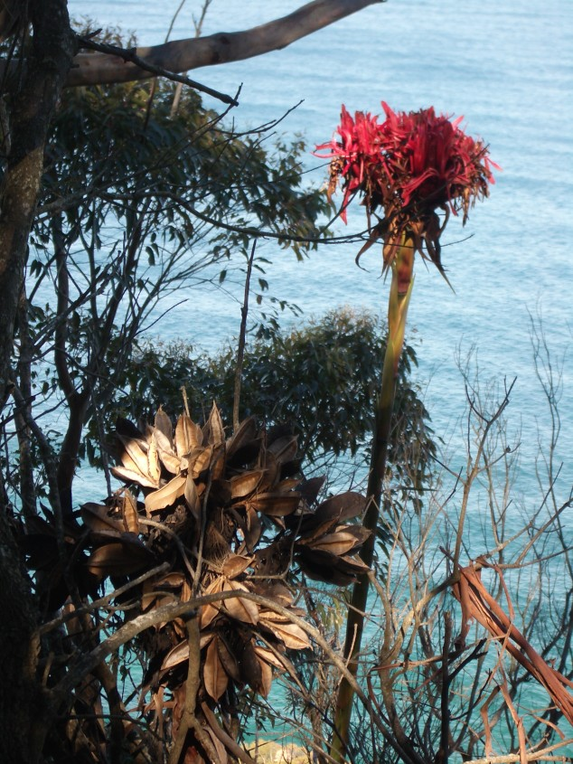 Flowers and past seeds of a Gymea Lily (Doryanthes excelsa) as photographed on Stony Batter Hill at the south border of the Royal National Park between Otford and Stanwell Park. Typical exposure in a coastal Sydney bush forest. Author: Klaus-Dieter Liss (kdliss) Date: 17. 9. 2005 Origin: own work